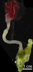 Osedax rubiplumus from whale-2893.